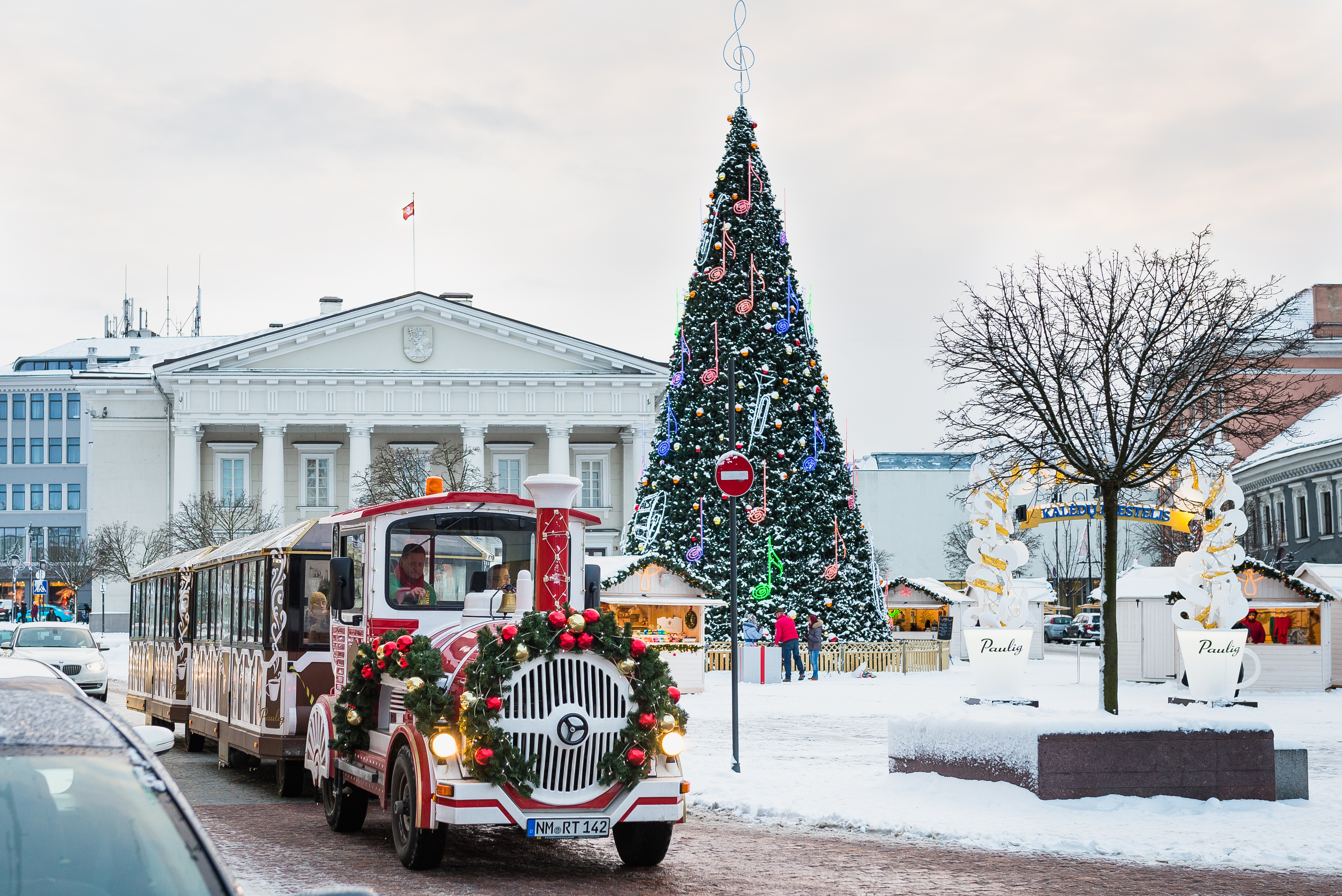 Christmas train in Vilnius, near the Vilnius Town Hall.